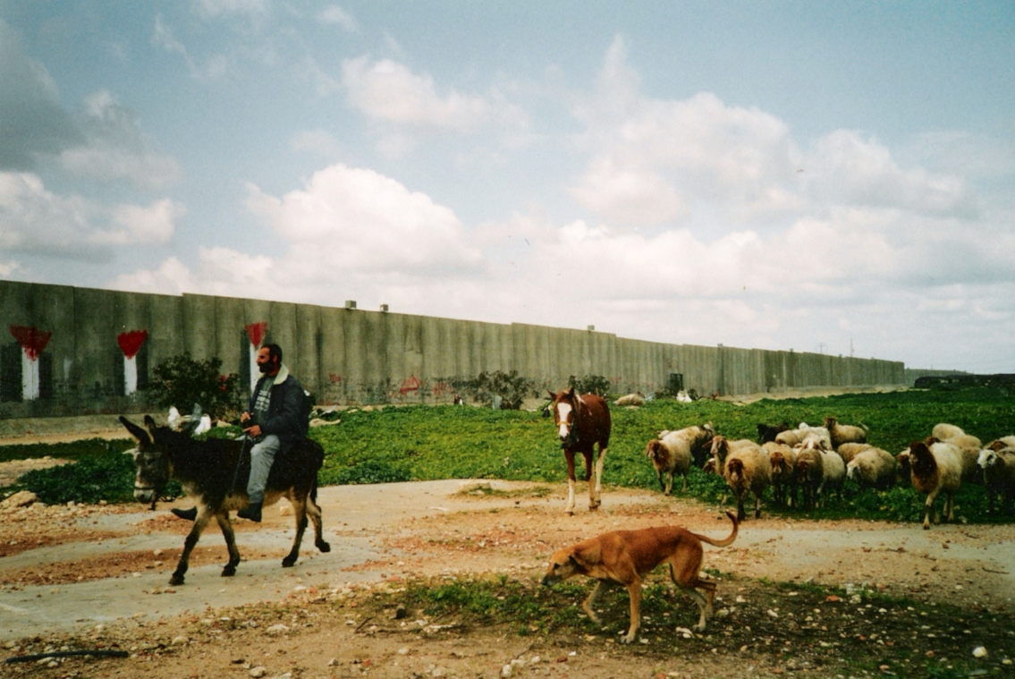 Farmer and his animals alongside the security wall in Qalqilya, West Bank, February 2004. By Howard Hudson